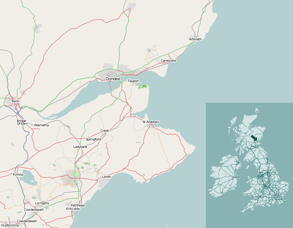 St Andrews, Scotland, location